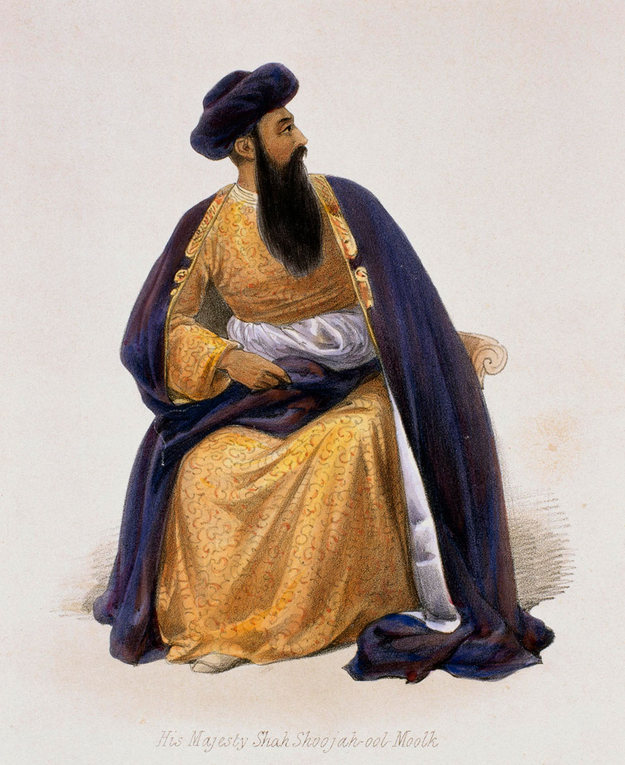 02. Amir Shah Shujah-ul-Mulk Shah Shujah-ul-Mulk (1785-1842) was the Amir of Afghanistan from 1802 until 1809 when he was driven out by his rival Mahmud Shah. During the First Afghan War (1838-42), the Governor-General of India Lord Auckland, attempted to restore Shah Shujah against the wishes of the Afghan people. In summer of 1839 the British-Indian Army of the Indus, under the command of Sir John Keane, captured Kandahar and the fortress of Ghazni. They then advanced north towards Kabul. Amir Dost Mohammed fled from the capital and Shah Shujah was duly installed in his place in August 1839. After his British backers were forced to retreat from Kabul in January 1842, Shah Shujah fled to the Bala Hissar fortress. In April he left this refuge and was killed by the supporters of Dost Mohammad's son, Muhammad Akbar Khan. Dost Mohammed was quietly restored to the throne. (NAM 1951-01-42-26)